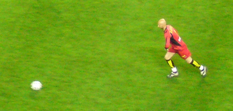 This is the french soccer goalkeeper Fabien barthez during the French national championship game between AS St Etienne and the FC Nantes.